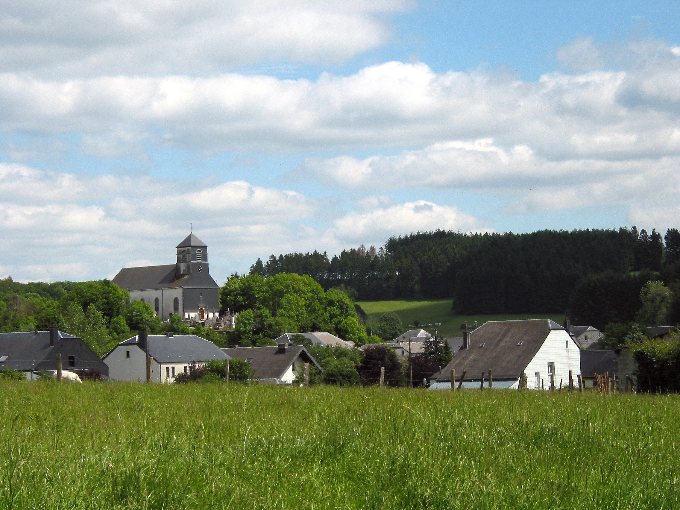 Léglise (Belgium), the village and its little church.